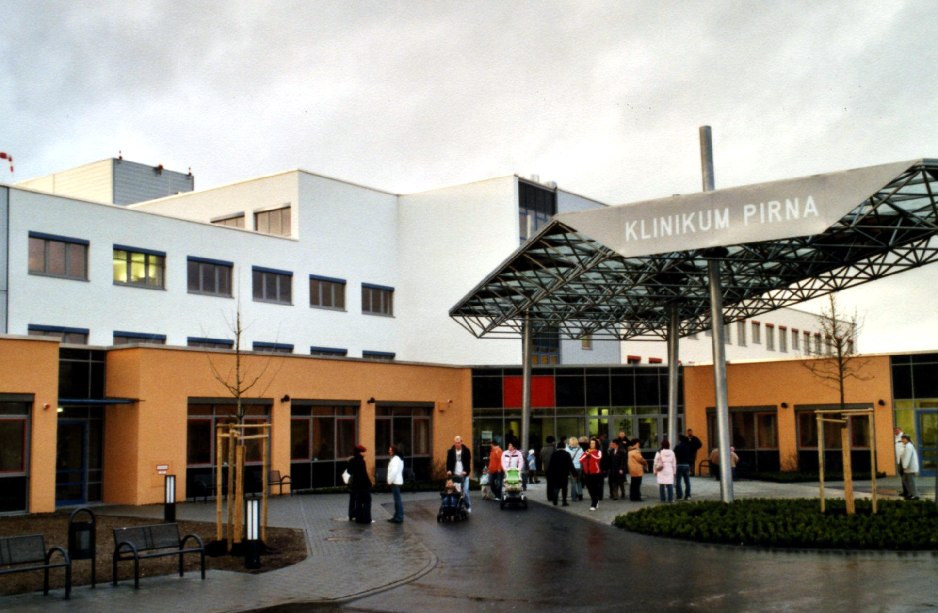 This image shows the new hospital Pirna.